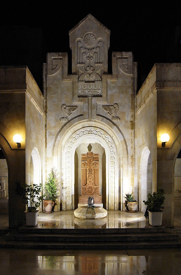 The memorial to the 1.5 million Armenians in 1915 in the Armenian Genocide, seen outside the Church of the 40 Martyrs in Deir Ez-Zour, Syria.